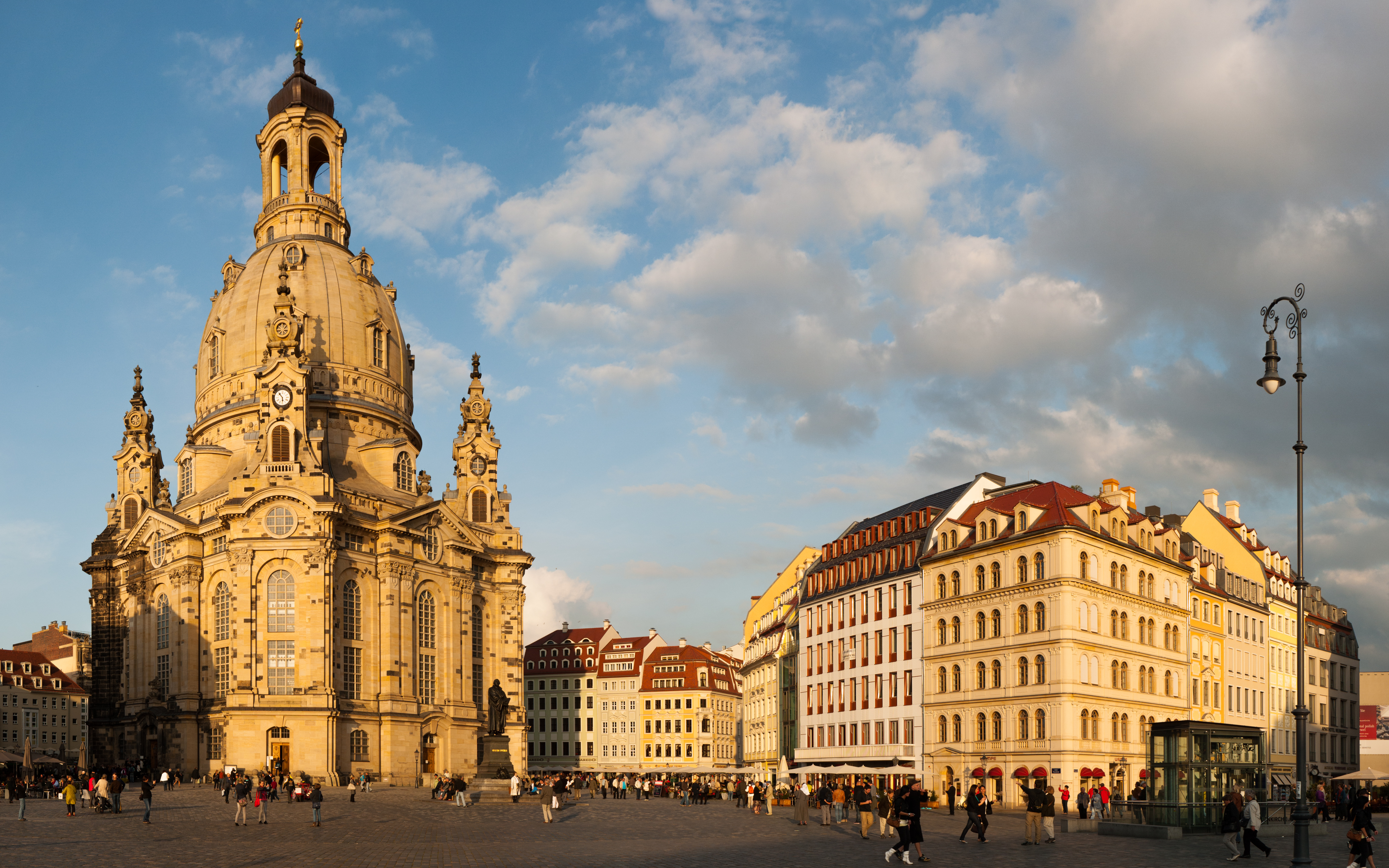 Dresden Frauenkirche, Church of our Lady